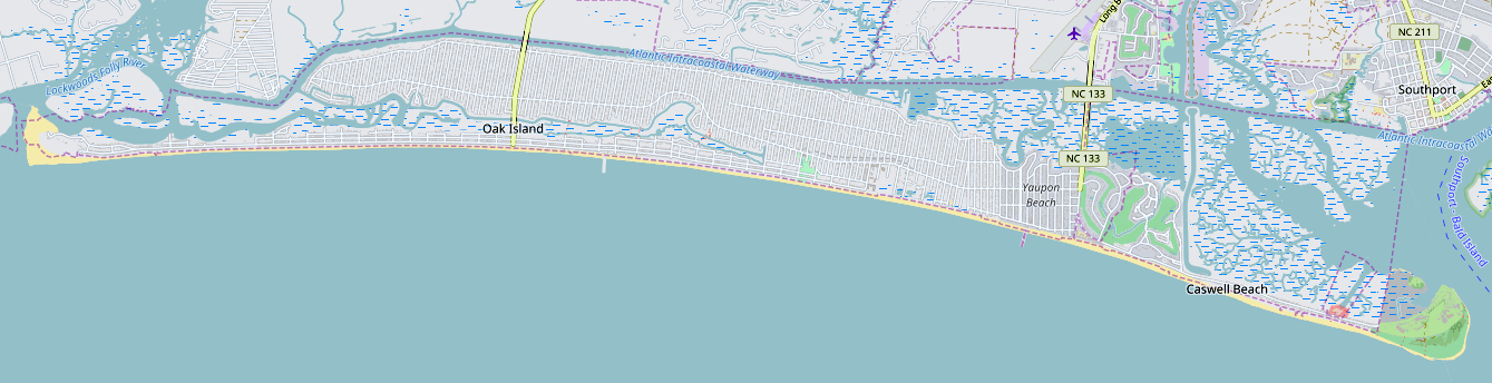 Map showing key landmarks, roads, marshes, and built up area